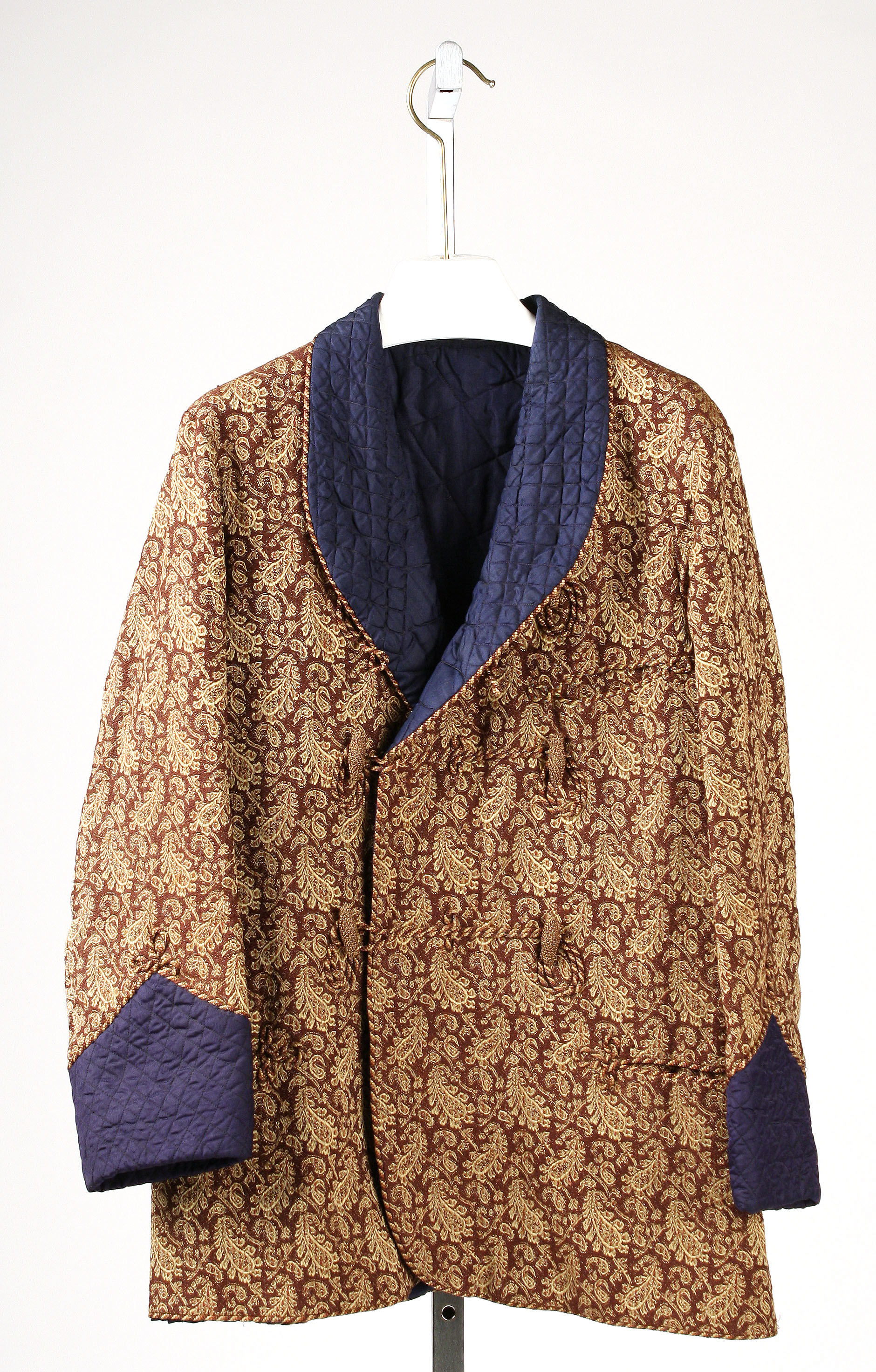 American or European; Smoking jacket